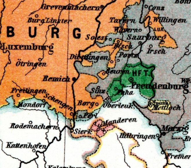 map of the lordship of Freeudenburg